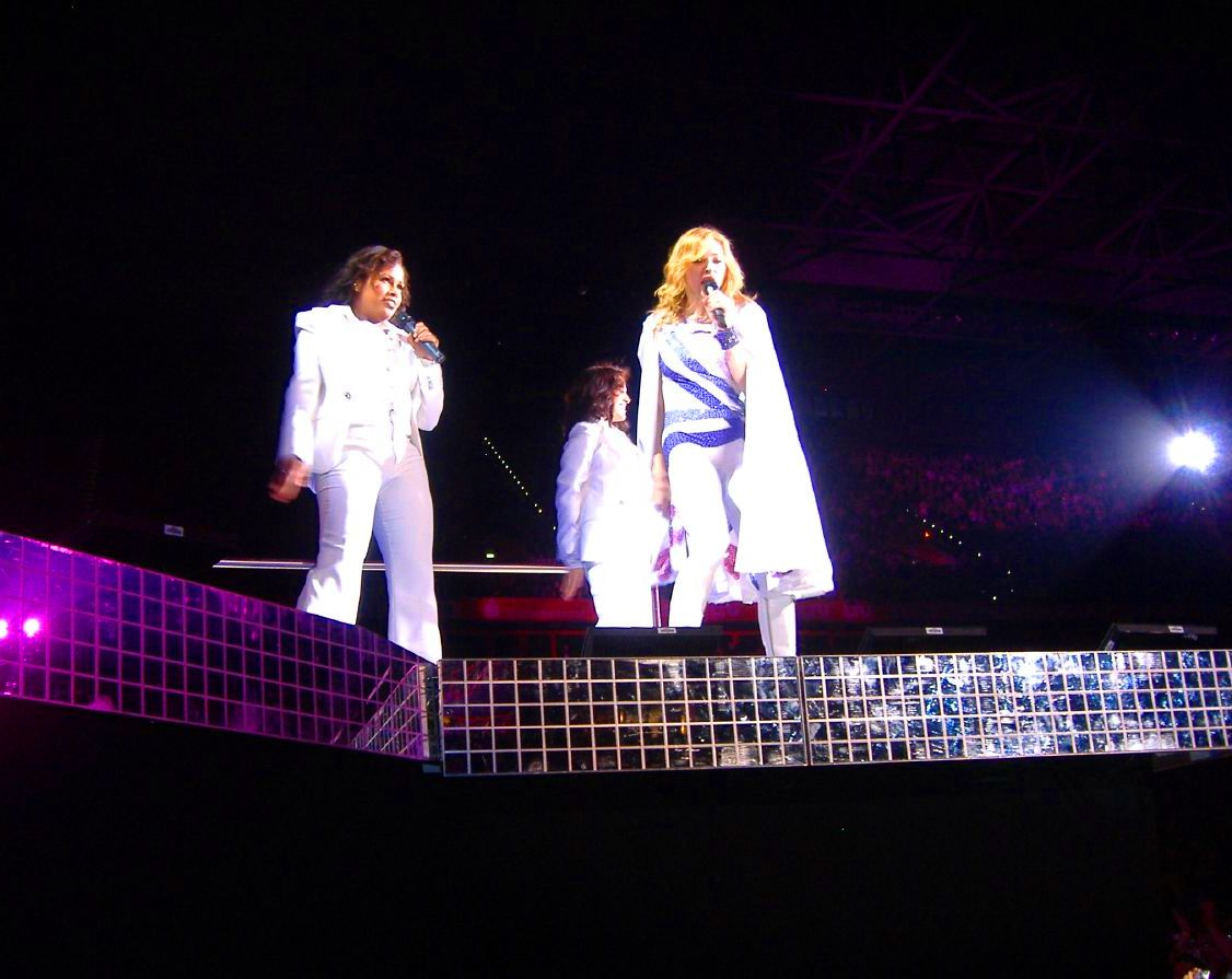 Madonna performing "Lucky Star" at the Confessions Tour